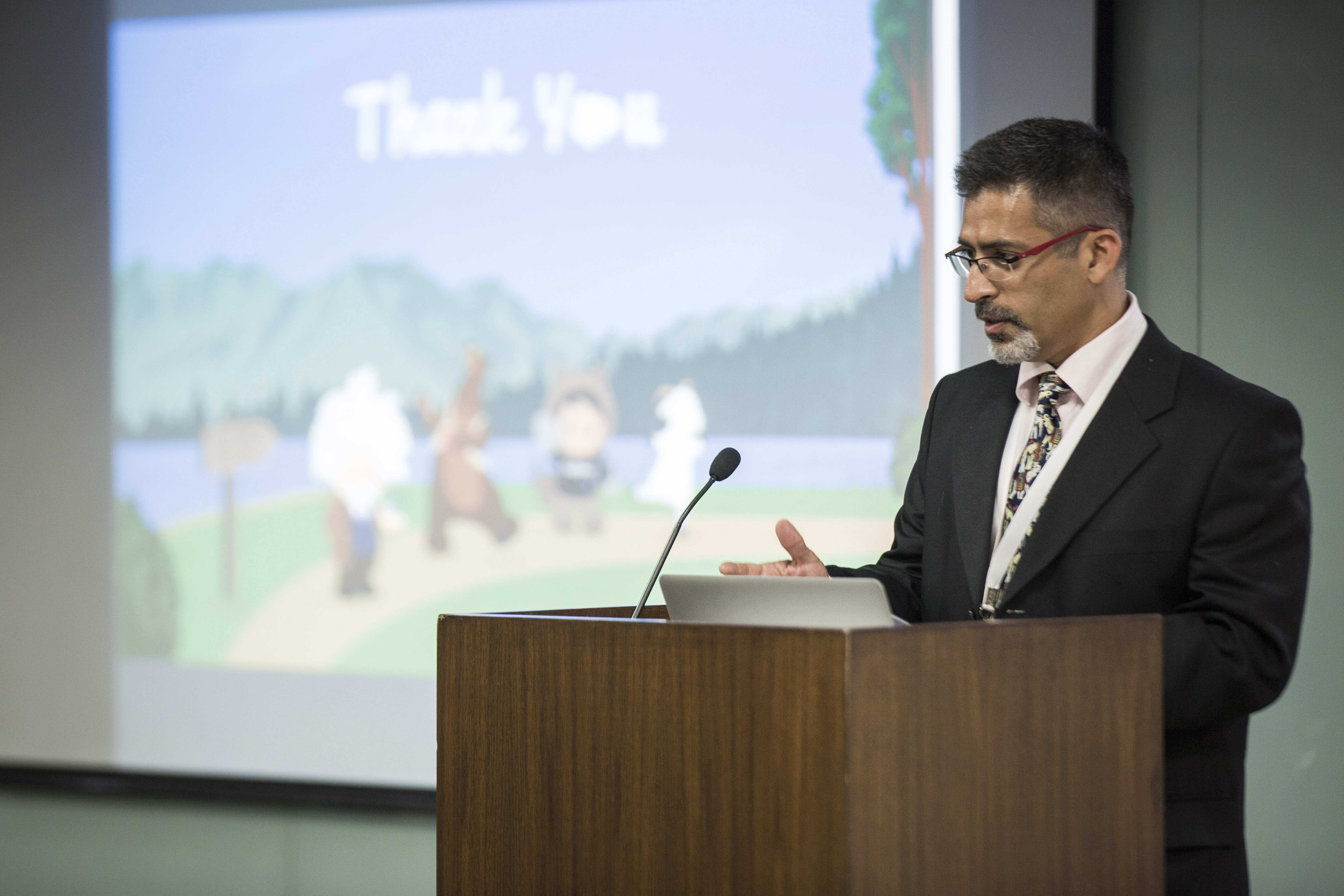 Rakesh Shukla , Founder and CEO, TWB_ and VOSD